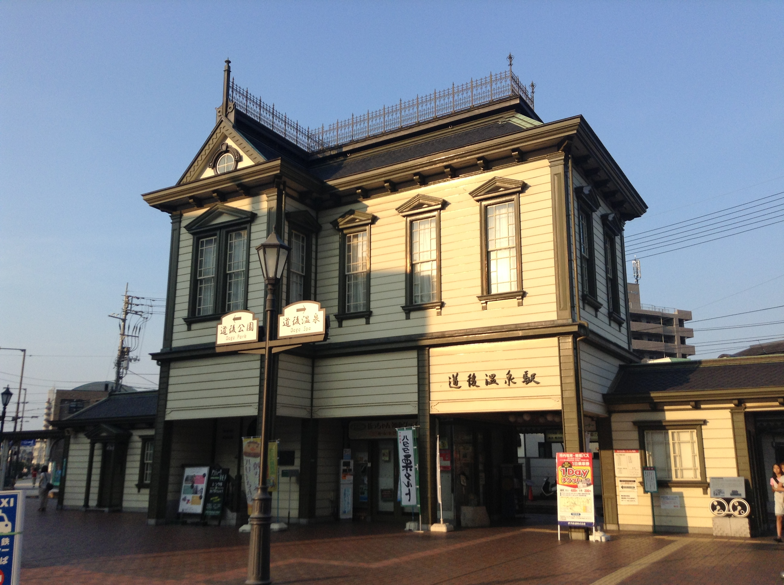 Iyo Railway Dogo Onsen station